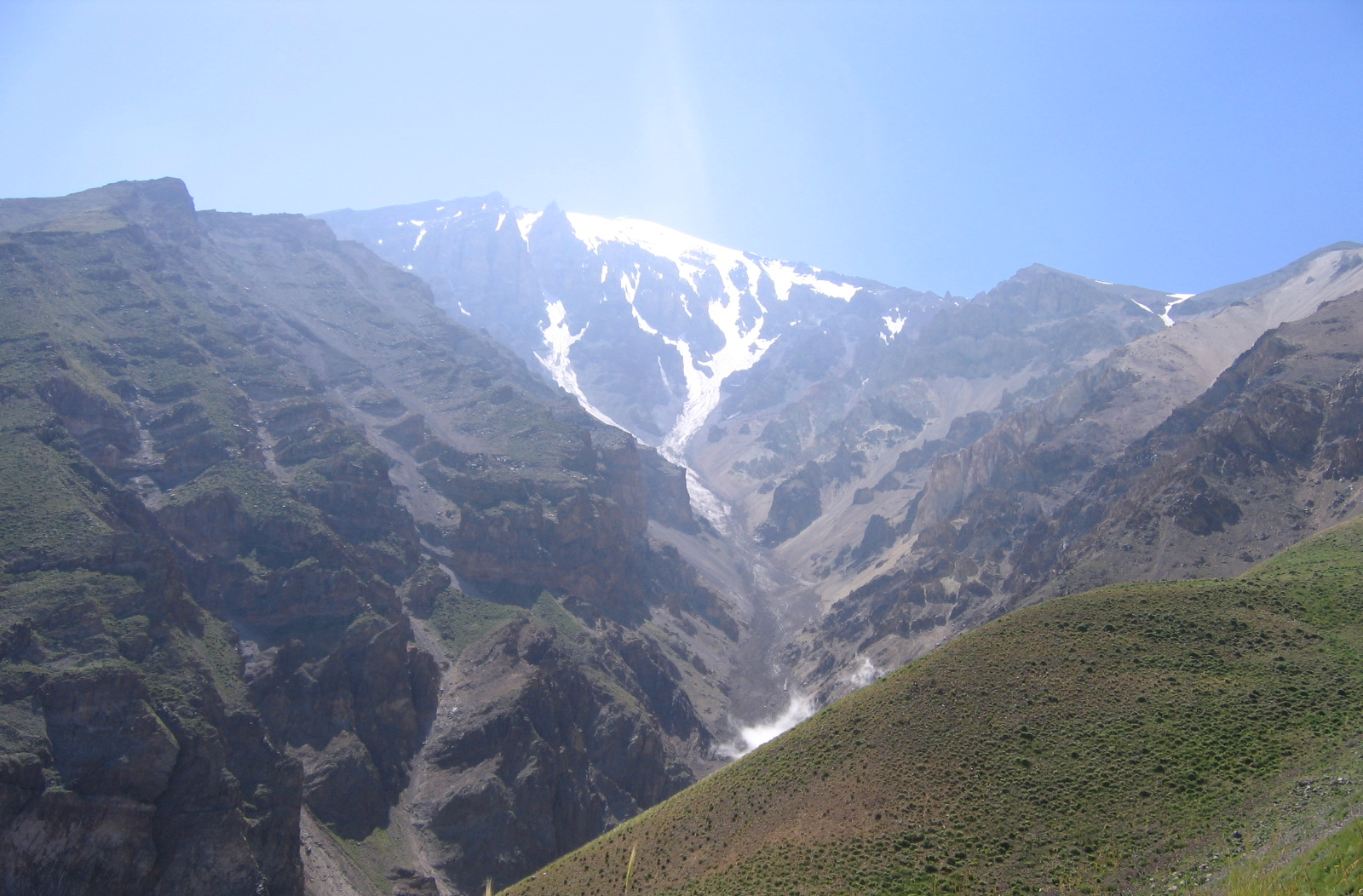 Damavand Mountain